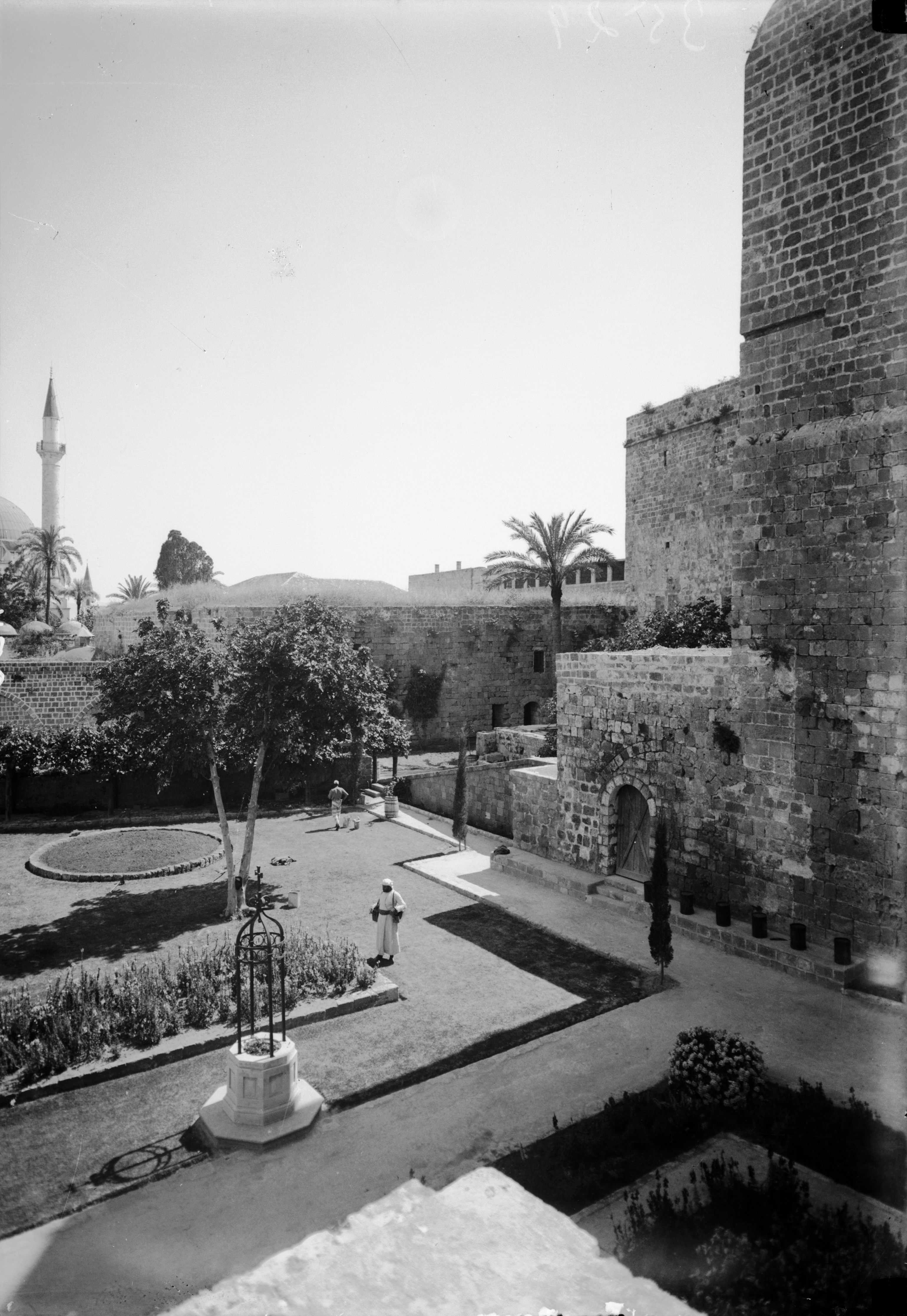 Akka (Acre, Accho). The castle gardens